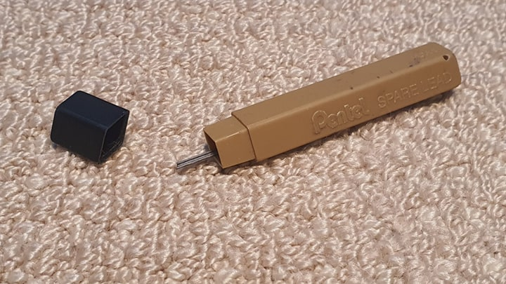 Container for storing a mechanical pencil's lead. Made in Japan by the brand Pentel.